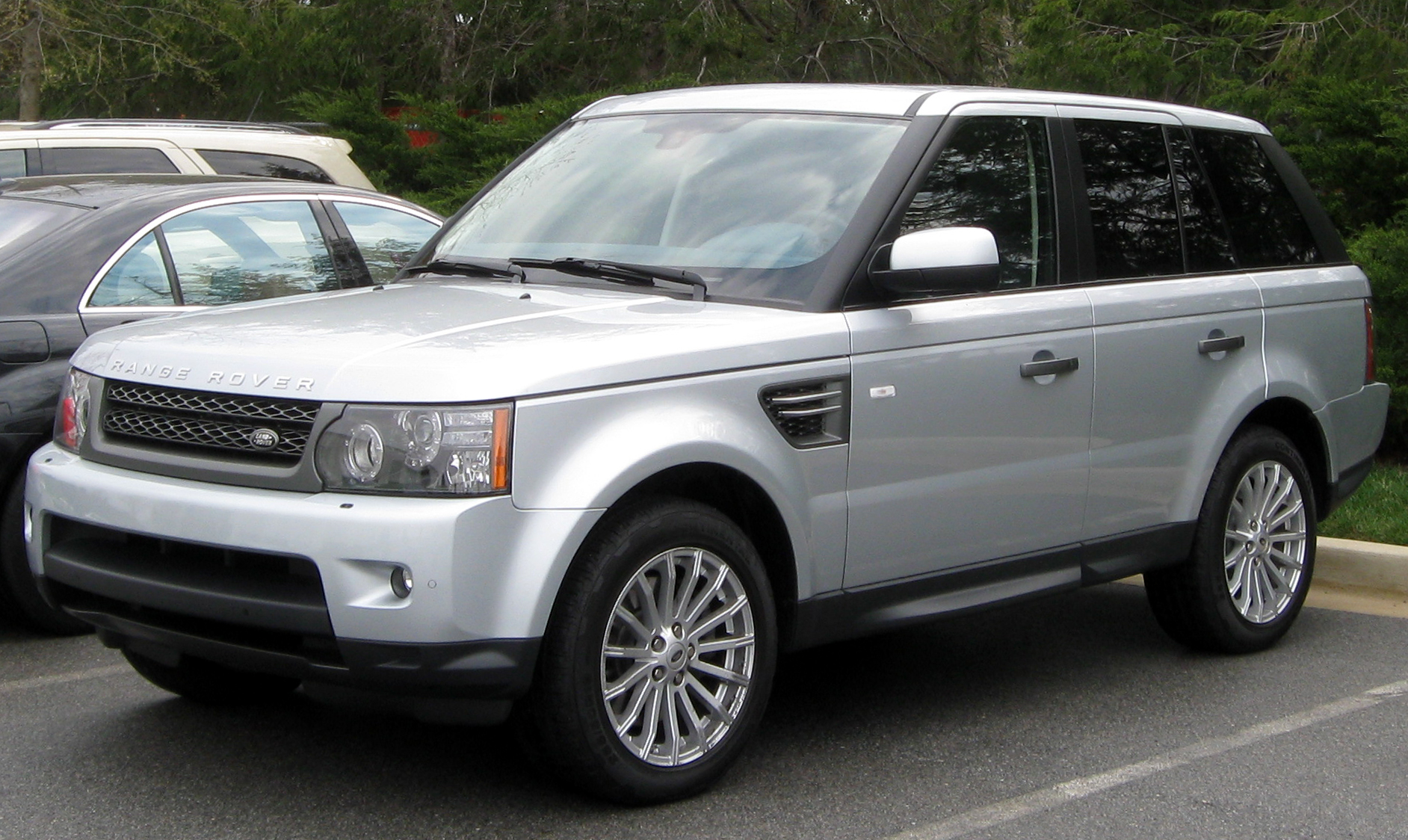 2010-2011 Range Rover Sport photographed in Upper Marlboro, Maryland, USA.